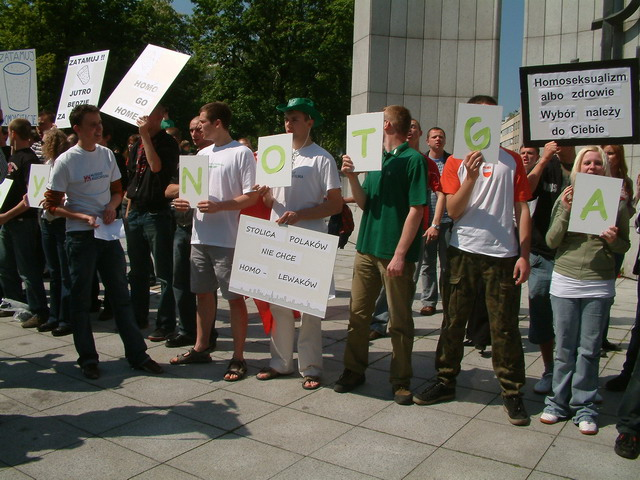 Poland, Warsaw, Parada Równości, Anti-gay demonstrators